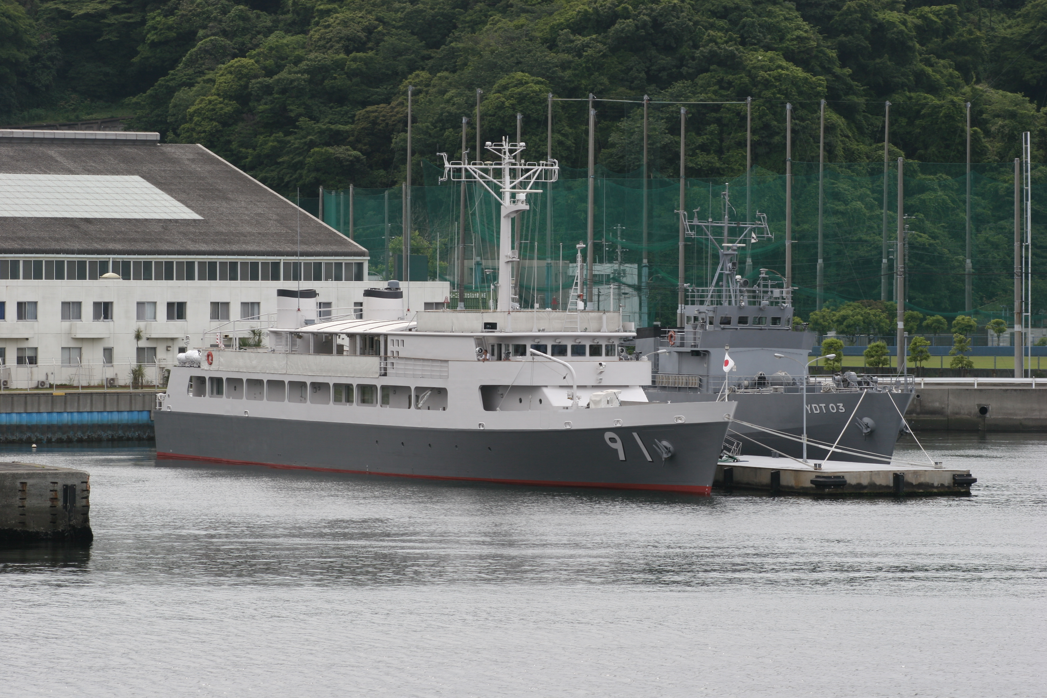 JMSDF_ASY91_Hashidate(Front.Taken at Yokosuka,Japan)